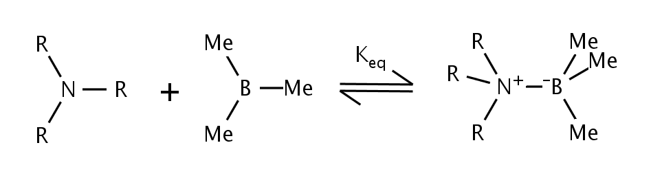 Reaction of trialkylamines with methylbromine